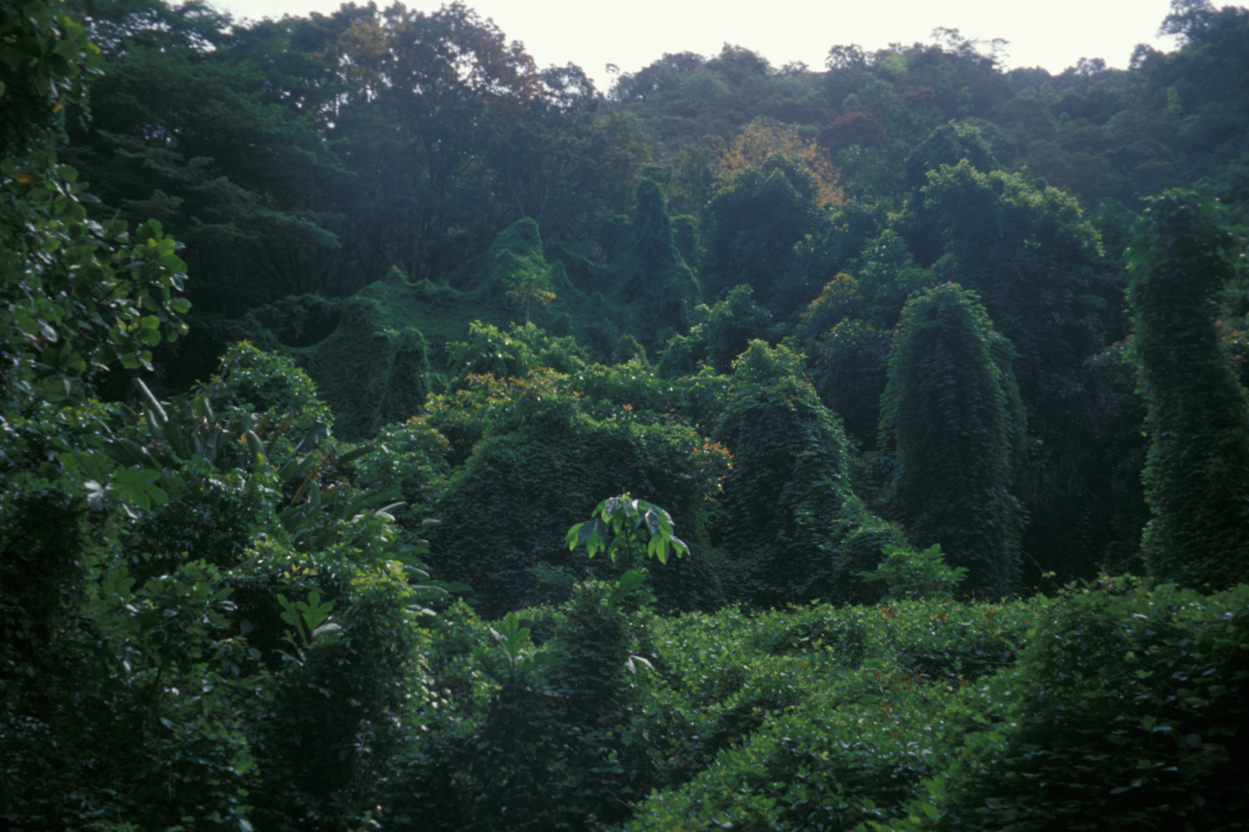 Tetrastigma pubinerve (habit). Location: Maui, Honokahau Valley